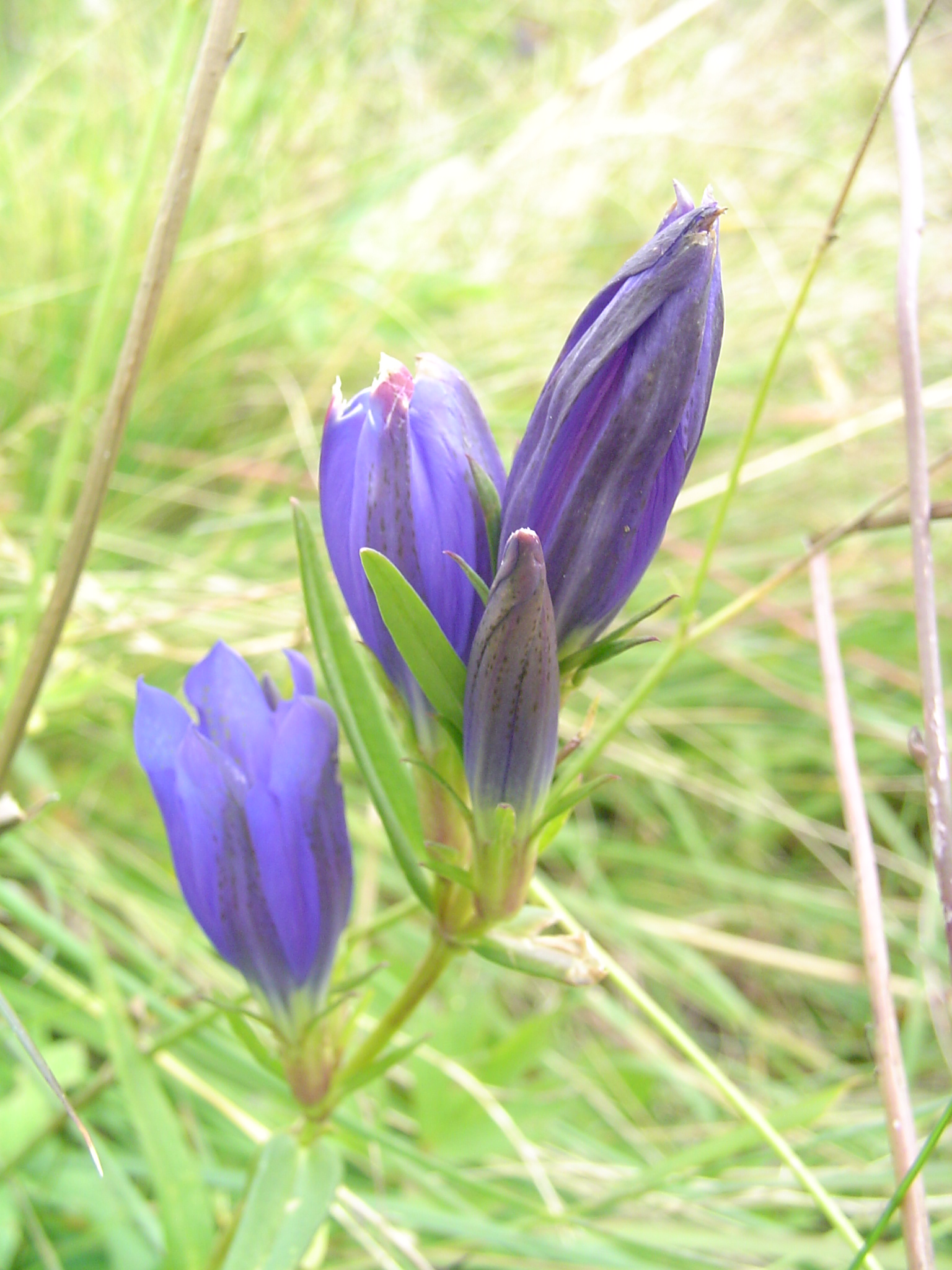 Gentiana pneumonanthe, shot in a fang in Cézallier, French Massif Central